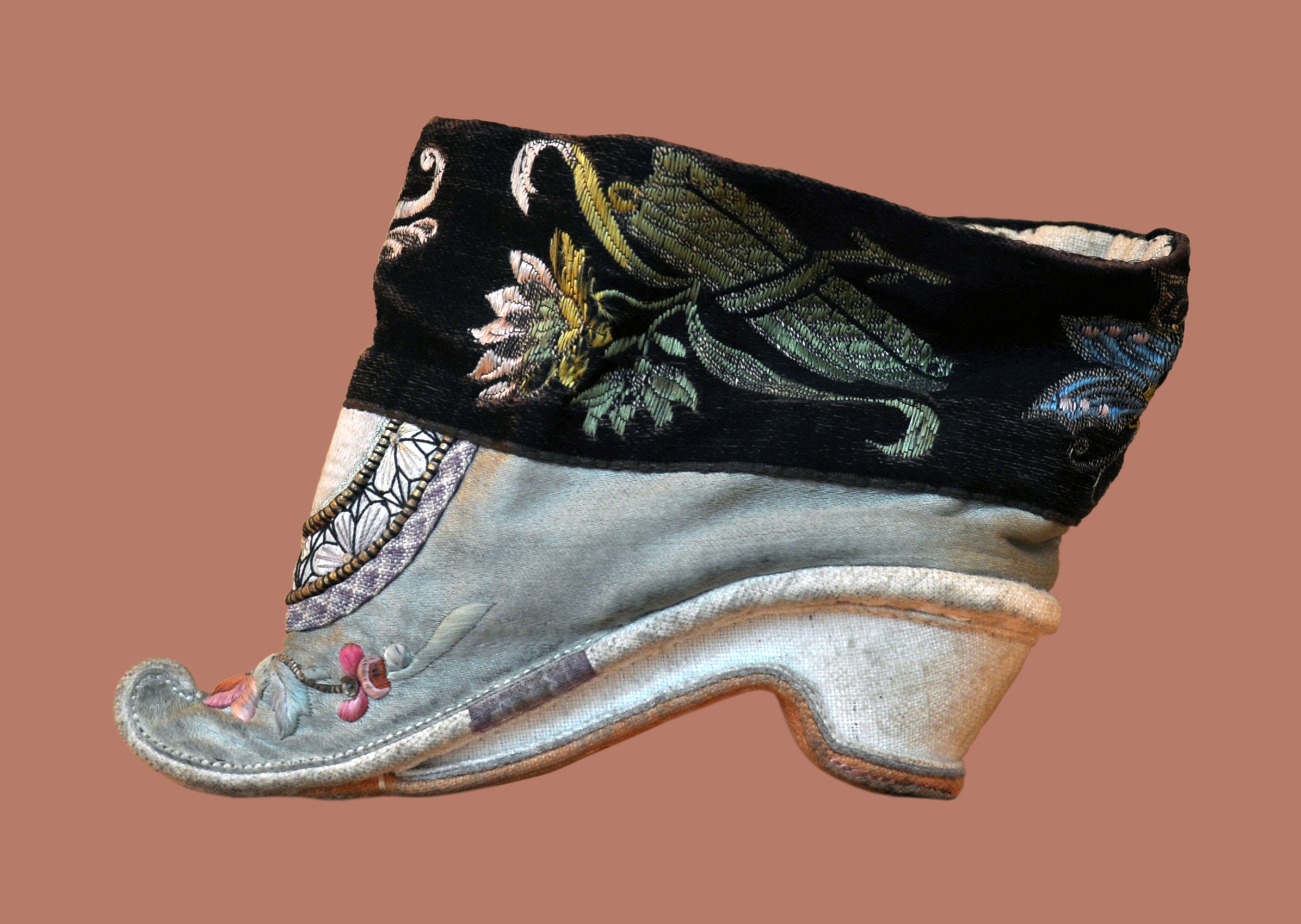 Chinese shoe for bound foot, 18th century. Musées du château des Rohan, Musée Louise Weiss, Saverne, France.